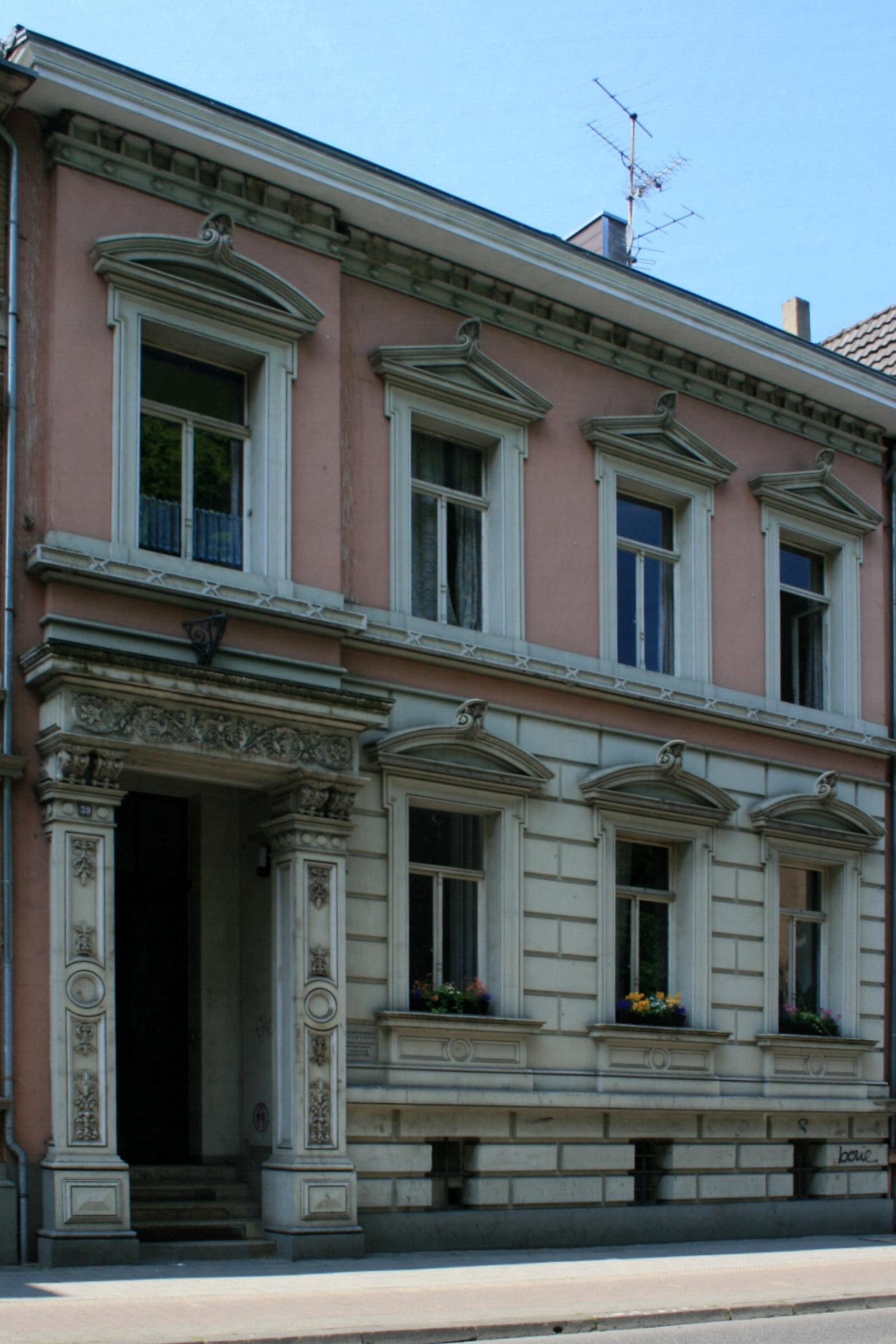 Cultural heritage monument No. B 083 in Mönchengladbach